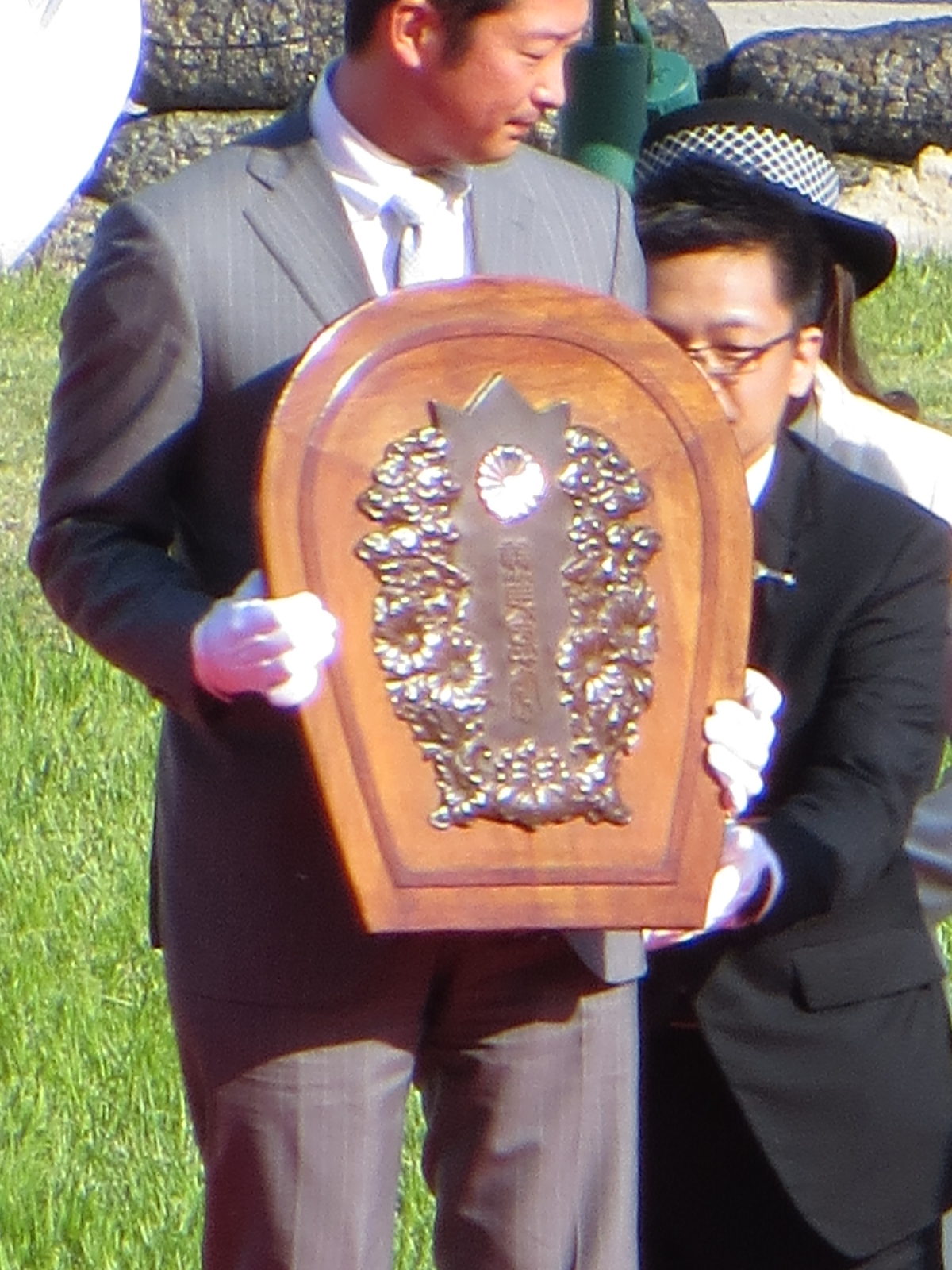 Tenno Take (Emperor's shield) from 147th Tenno Sho spring. This shield is equivalent to the trophy.